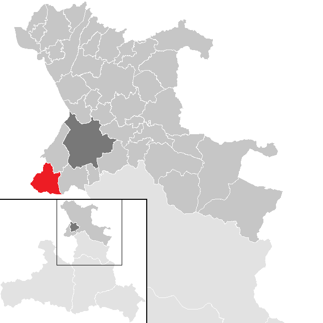 District Salzburg-Umgebung